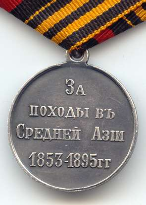 Medal of Battle for Russian Turkestan